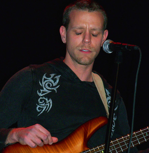 Photograph of Adam Pascal in concert, New Haven Connecticut January 19th 2008.